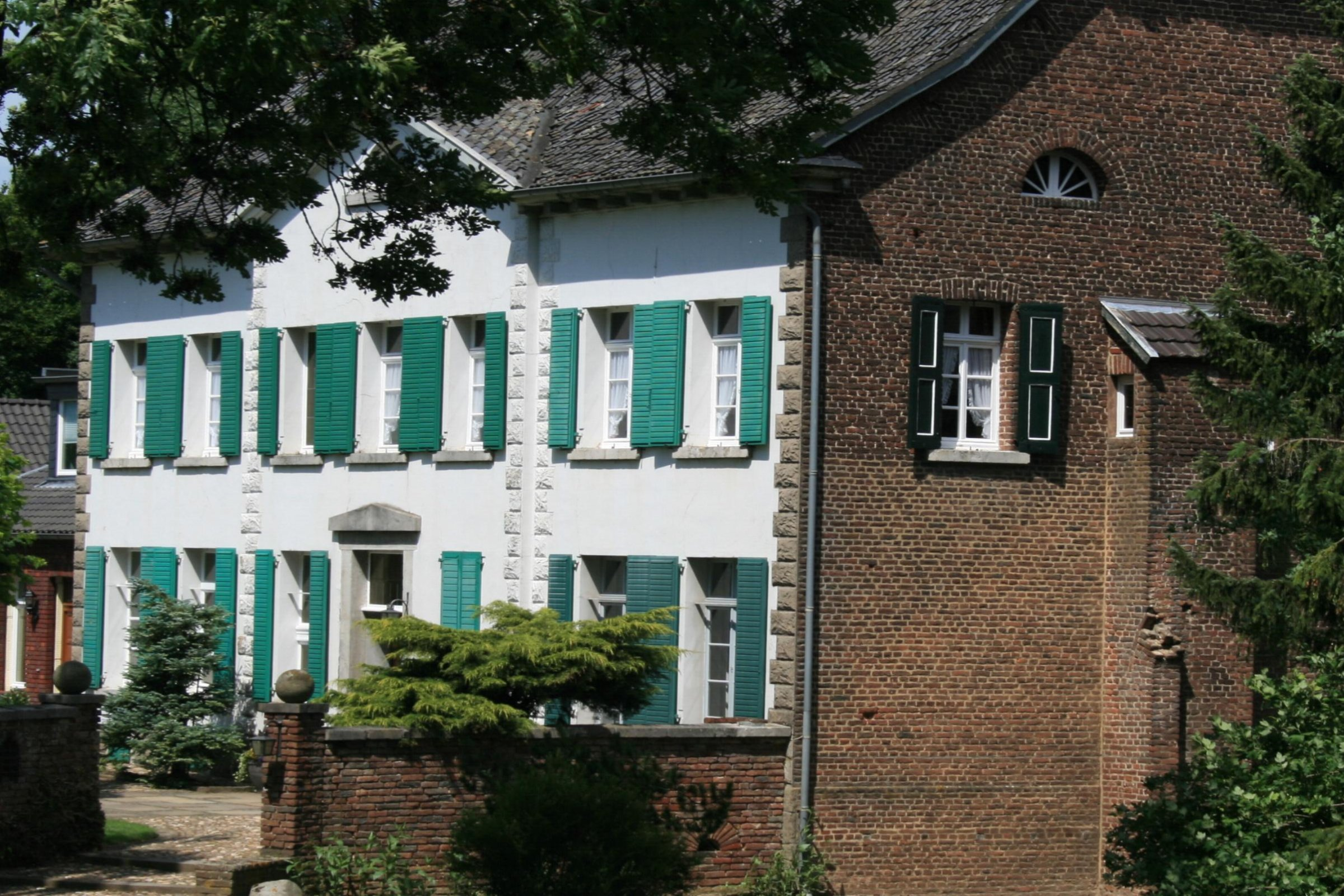 Cultural heritage monument No. 88 in Titz